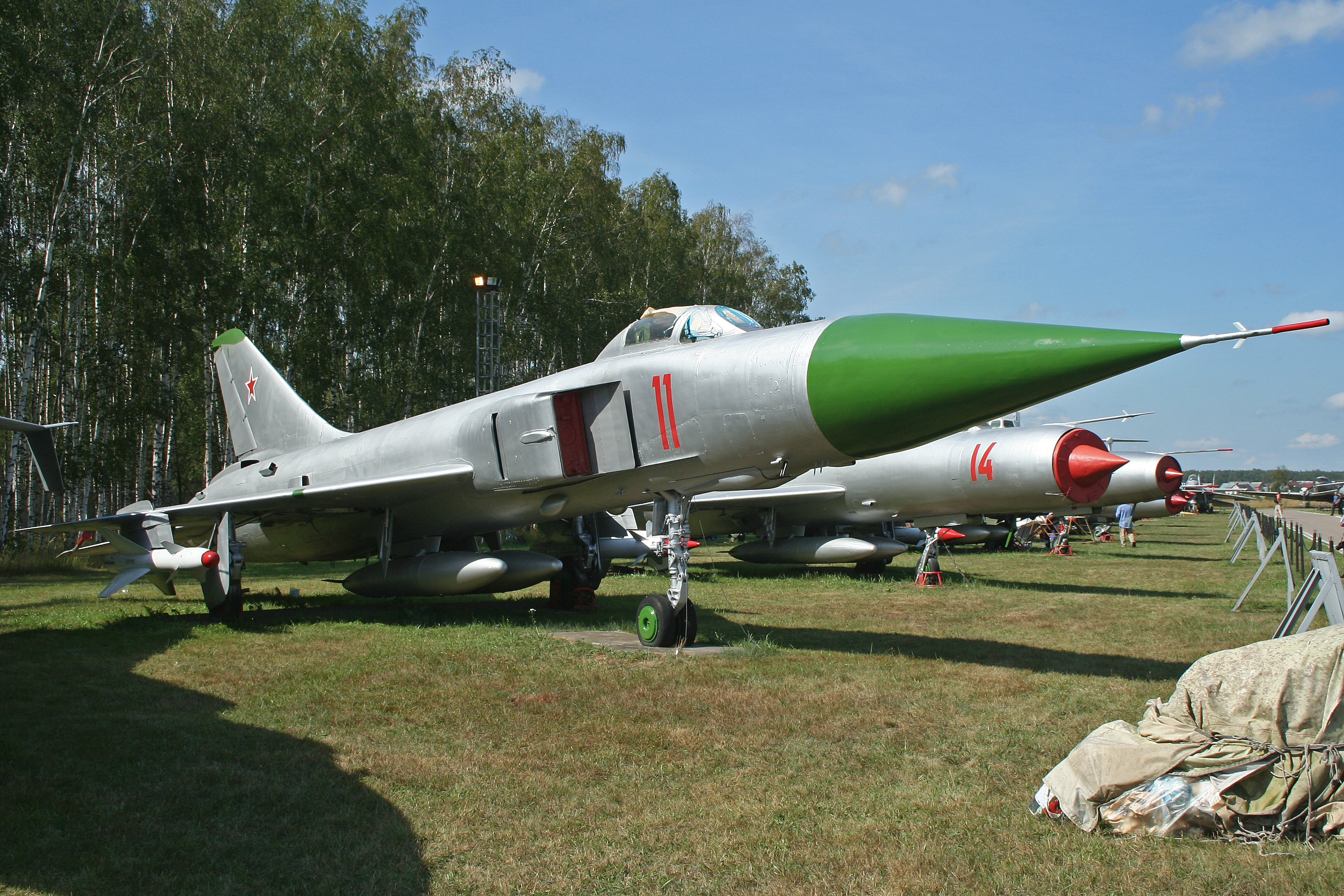 T-58 was the Sukhoi company designation for the Flagon, which was known as the Su-15 in service. It was designed to replace the Su-11 in the interceptor role. This is the second prototype aircraft, built as the T-58D-2. It was later converted into the T-58L. It was previously coded '32 blue' but has now been repainted with a spurious red code. c/n T.58D-2. On display at the Russian Air Force Museum. Monino, Russia. 13-8-2012